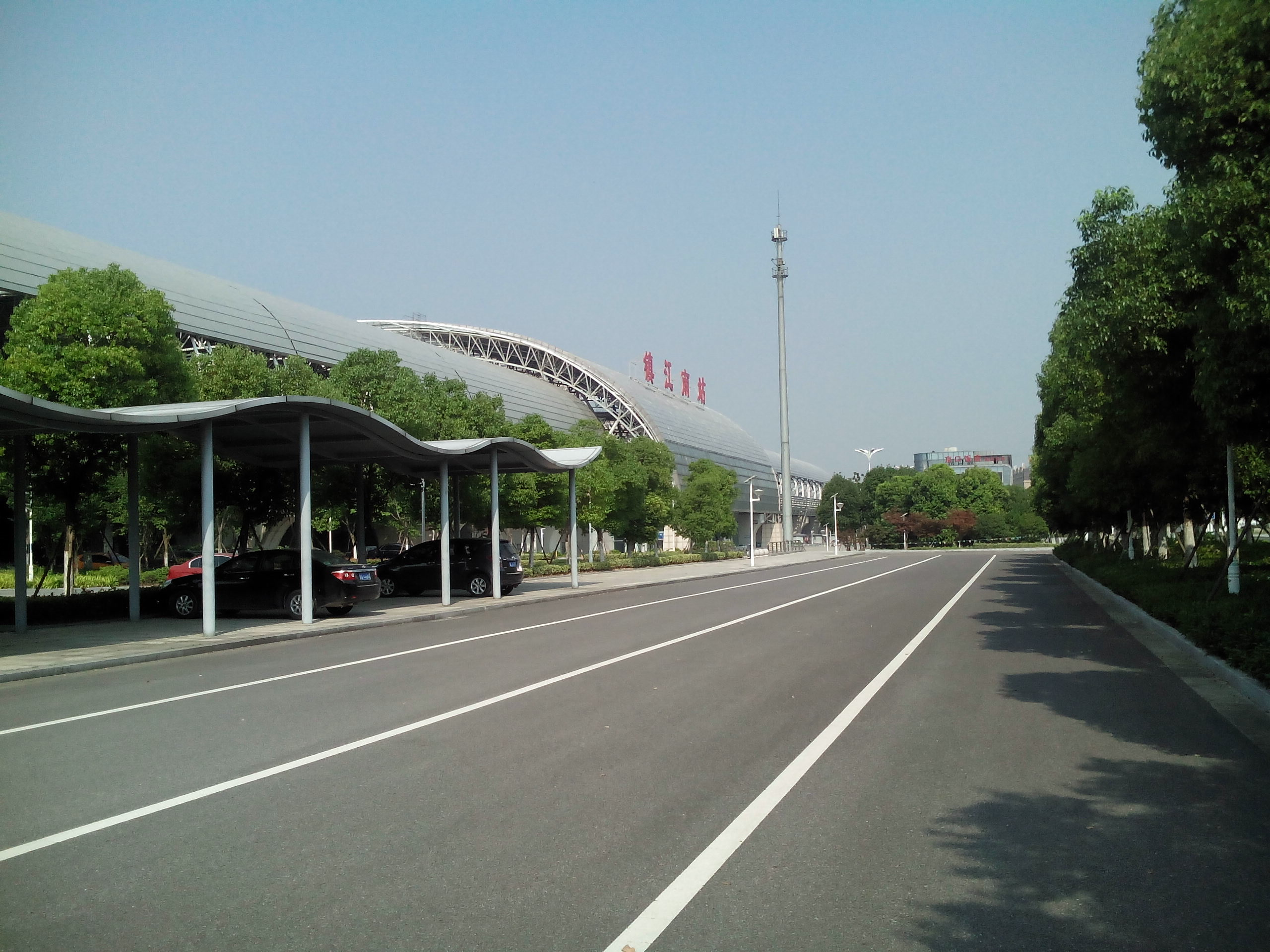 201407 Zhenjiangnan Railway Station